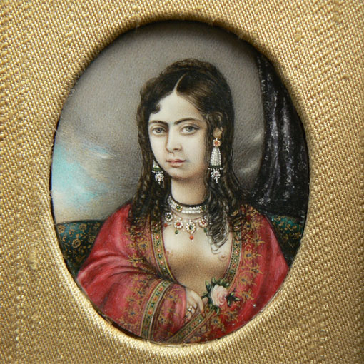 Portrait of Zinat Mahal, the favorite wife of the last Emperor of the Mughal Empire